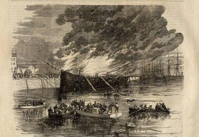 'Novara on fire' at port during a refit. Note that this picture illustrated an Italian Newspaper in 1866, after Italians had lost the battle of Lissa, where this ennemy's ship had participated. If there was some fire aboard 'Novara' at all (which does not seem to be reported by available Navy documents), it can never have been of such size: The wooden ship, which was in duty until 1898, would have been completely destroyed.